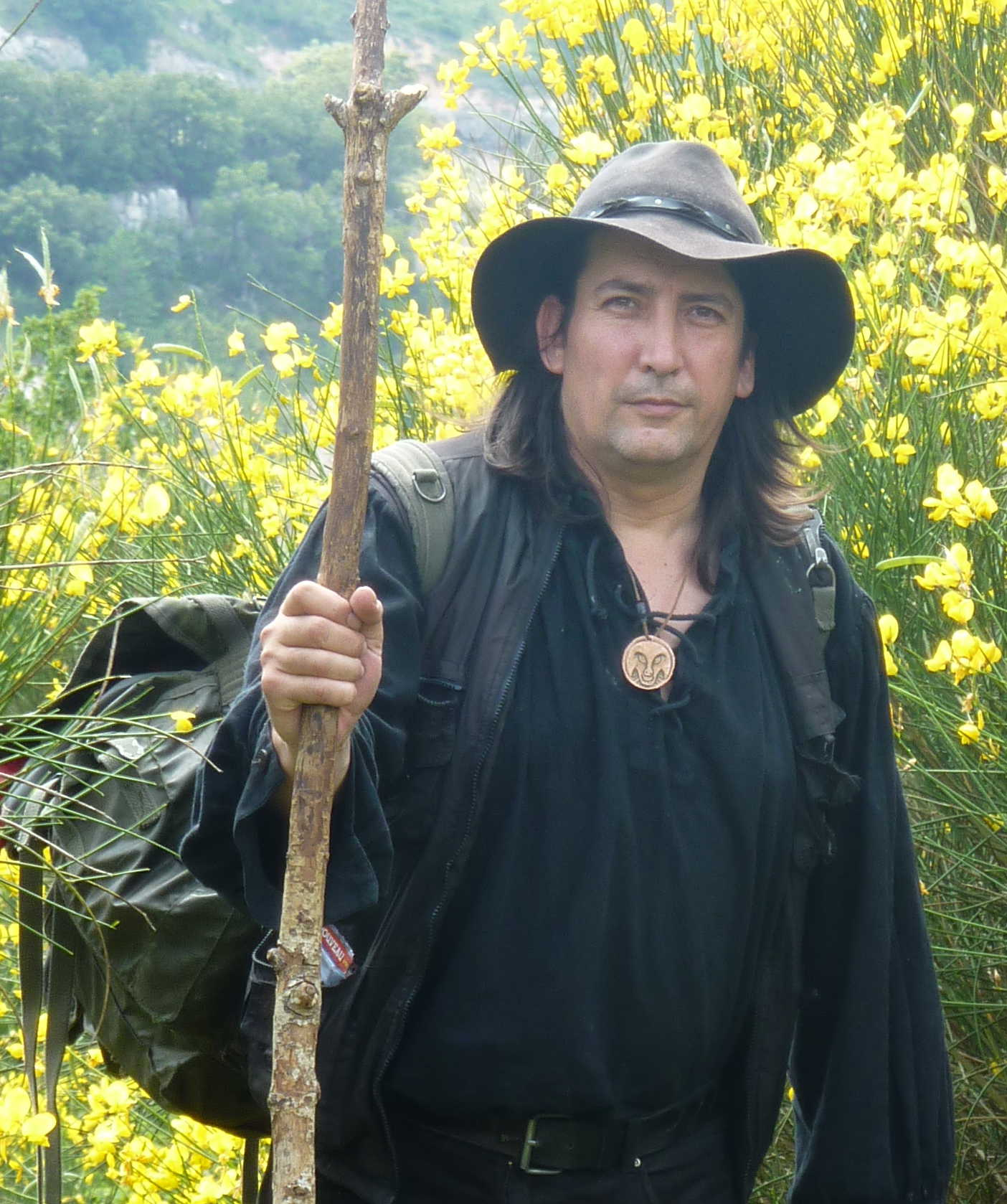 Filmmaker Richard Stanley during an expedition in Montsegur, France.